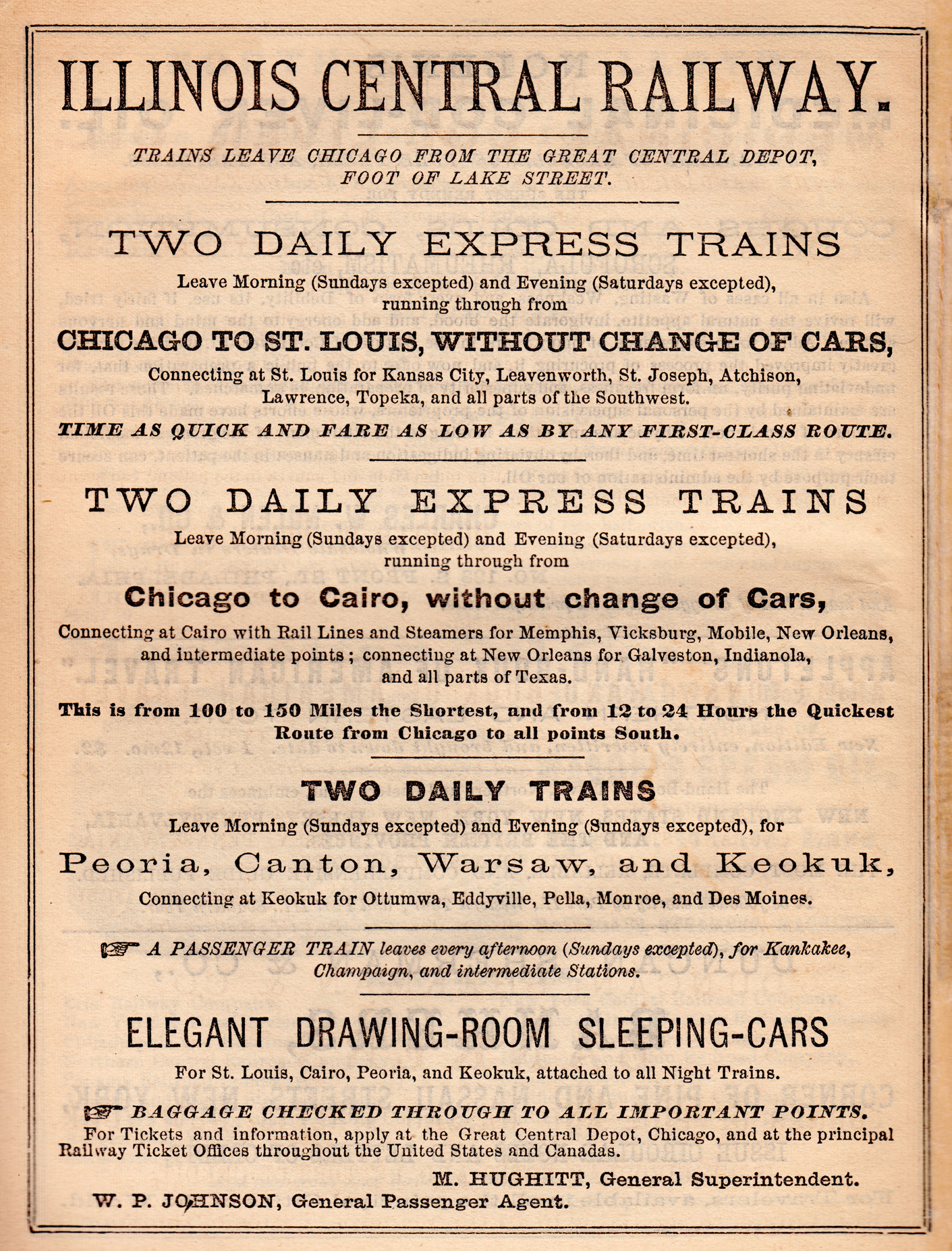 Advertisement for the Illinois Central Railway, December, 1870